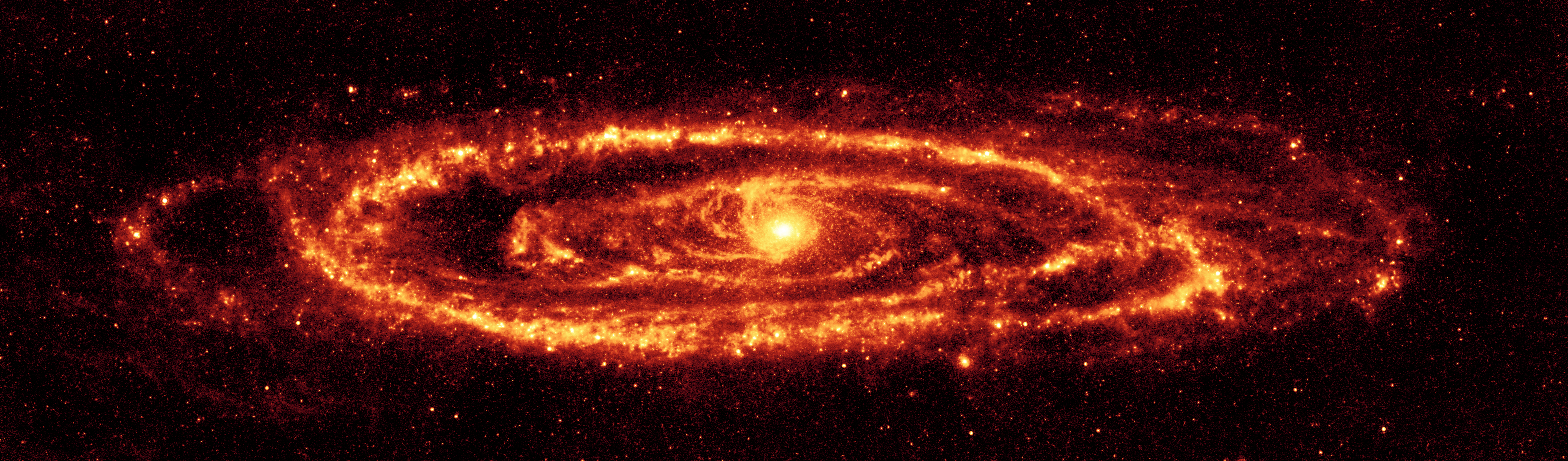 NASA's Spitzer Space Telescope has captured stunning infrared views of the famous Andromeda galaxy to reveal insights that were only hinted at in visible light. This Spitzer's 24-micron mosaic is the sharpest image ever taken of the dust in another spiral galaxy. This is possible because Andromeda is a close neighbor to the Milky Way at a mere 2.5 million light-years away. The Spitzer multiband imaging photometer's 24-micron detector recorded 11,000 separate snapshots to create this new comprehensive picture. Asymmetrical features are seen in the prominent ring of star formation. The ring appears to be split into two pieces, forming the hole to the lower right. These features may have been caused by interactions with satellite galaxies around Andromeda as they plunge through its disk. Spitzer also reveals delicate tracings of spiral arms within this ring that reach into the very center of the galaxy. One sees a scattering of stars within Andromeda, but only select stars that are wrapped in envelopes of dust light up at infrared wavelengths. This is a dramatic contrast to the traditional view at visible wavelengths, which shows the starlight instead of the dust. The center of the galaxy in this view is dominated by a large bulge that overwhelms the inner spirals seen in dust. The dust lanes are faintly visible in places, but only where they can be seen in silhouette against background stars. The data were taken on August 25, 2004, the one-year anniversary of the launch of the space telescope. The observations have been transformed into this remarkable gift from Spitzer -- the most detailed infrared image of the spectacular galaxy to date.